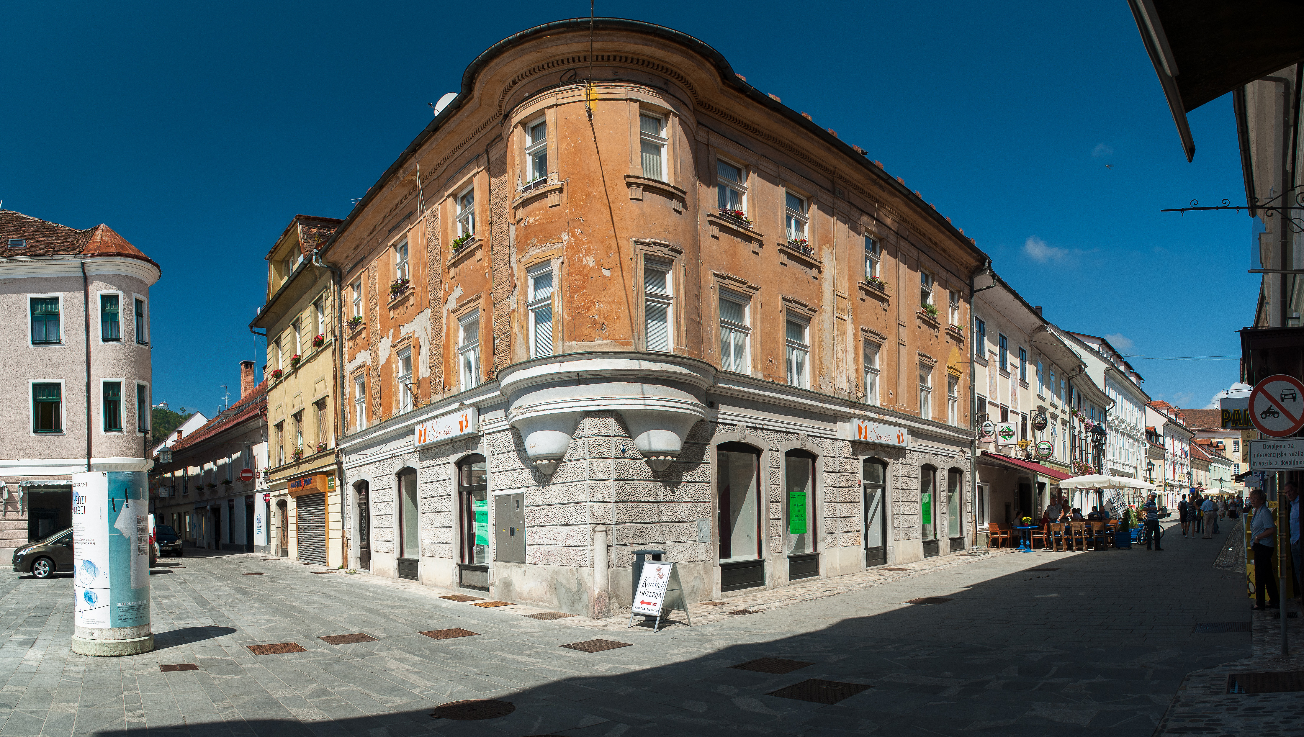 Corner building on Main Square in Kranj, Prešernova street on the right and Jenkova street on the leftSlovenščina: Hiša na robu glvanega trga v Kranju, desno je Prešernova ulica levo pa Jenkova ulica